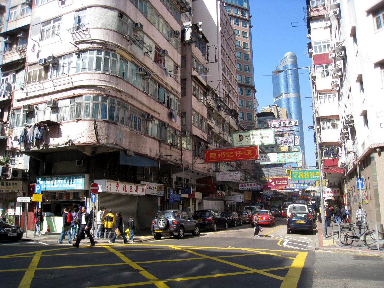 Portland Street Yau Ma Tei Section 砵蘭街與咸美頓街交界